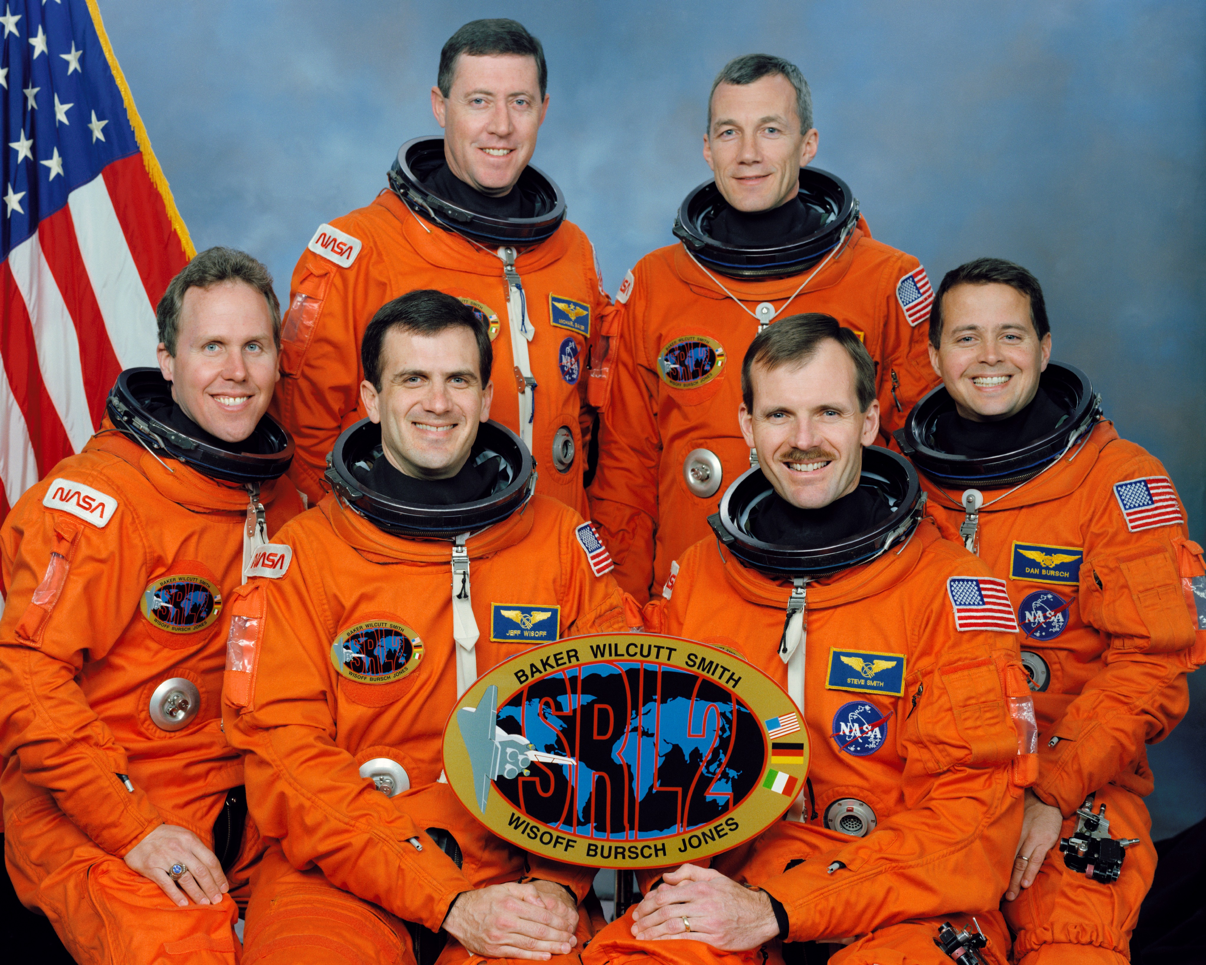 The crew of the Space Shuttle mission STS-68 described by NASA as follows. :Standing are, left to right, Michael A. Baker, mission commander; and Terrence W. Wilcutt, pilot. On the front row are, left to right, Thomas D. Jones, payload commander; and Peter J. K. (Jeff) Wisoff, Steven L. Smith and Daniel W. Bursch, all mission specialists.